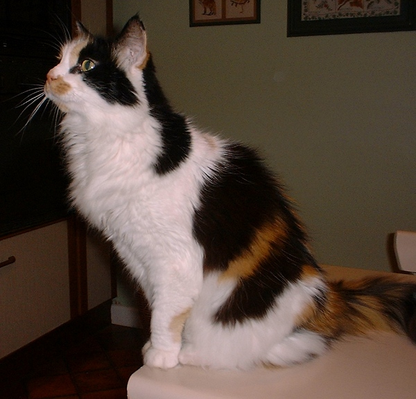 Tortoiseshell cat.